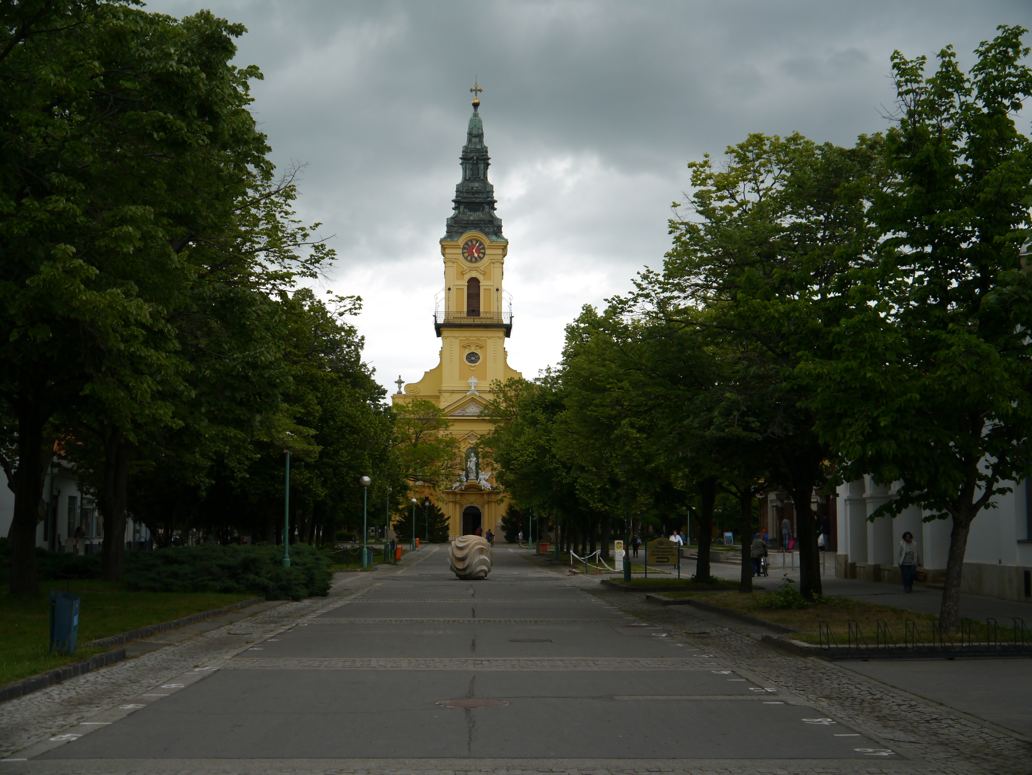 Our Lady of the Visitation Catholic Church. (Old Church). - Béke Square, Kiskunfelégyháza, Hungary